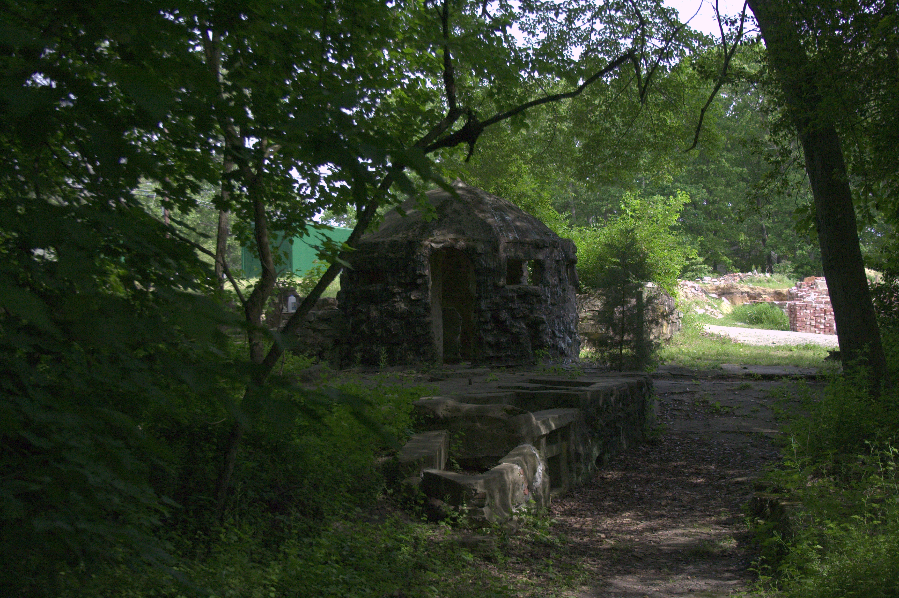 A photograph of the ticket house of the Palace of Depression. Its the last remaining original remnants of the old building.